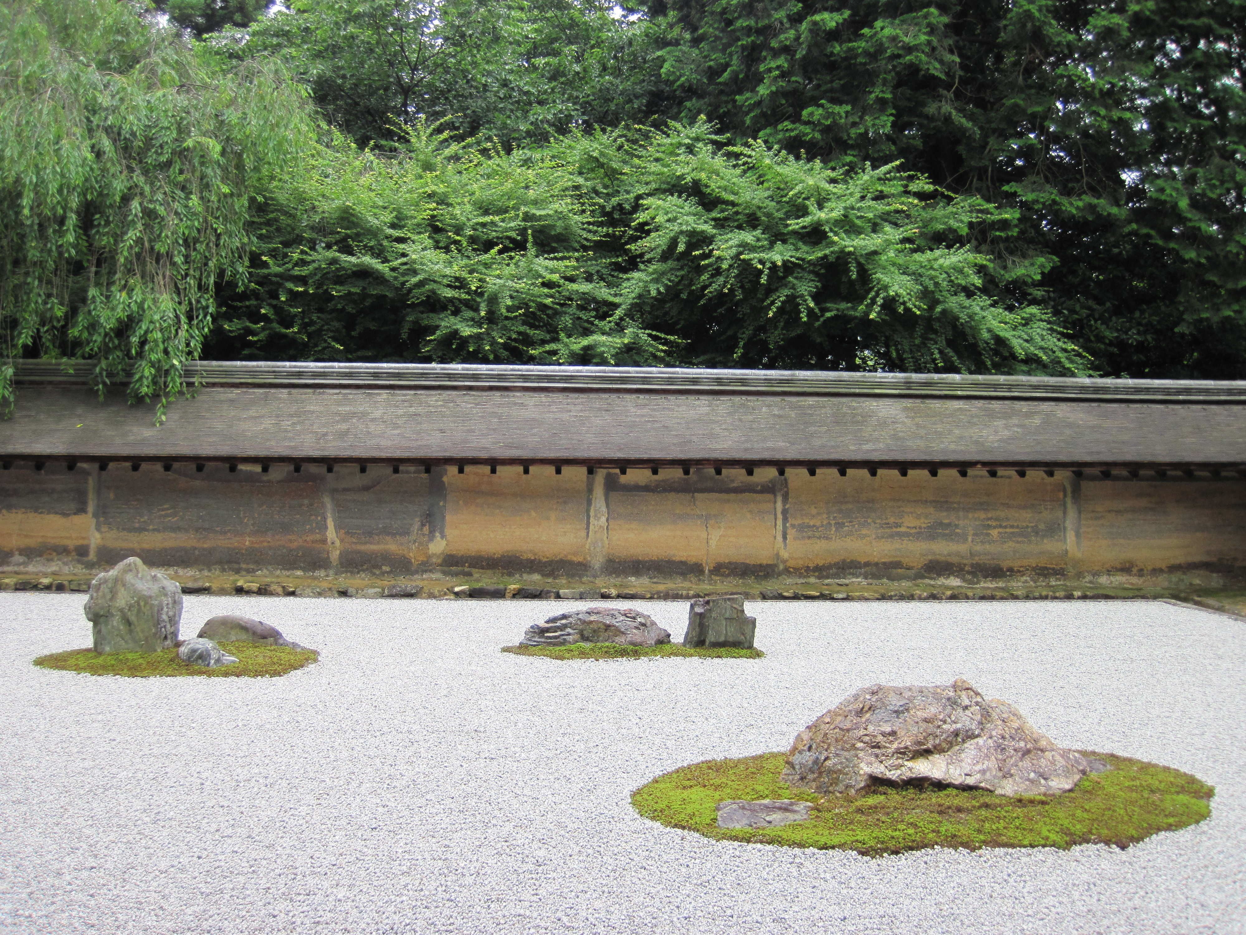 Ryoan-ji National Treasure World heritage Kyoto 国宝・世界遺産 龍安寺 京都